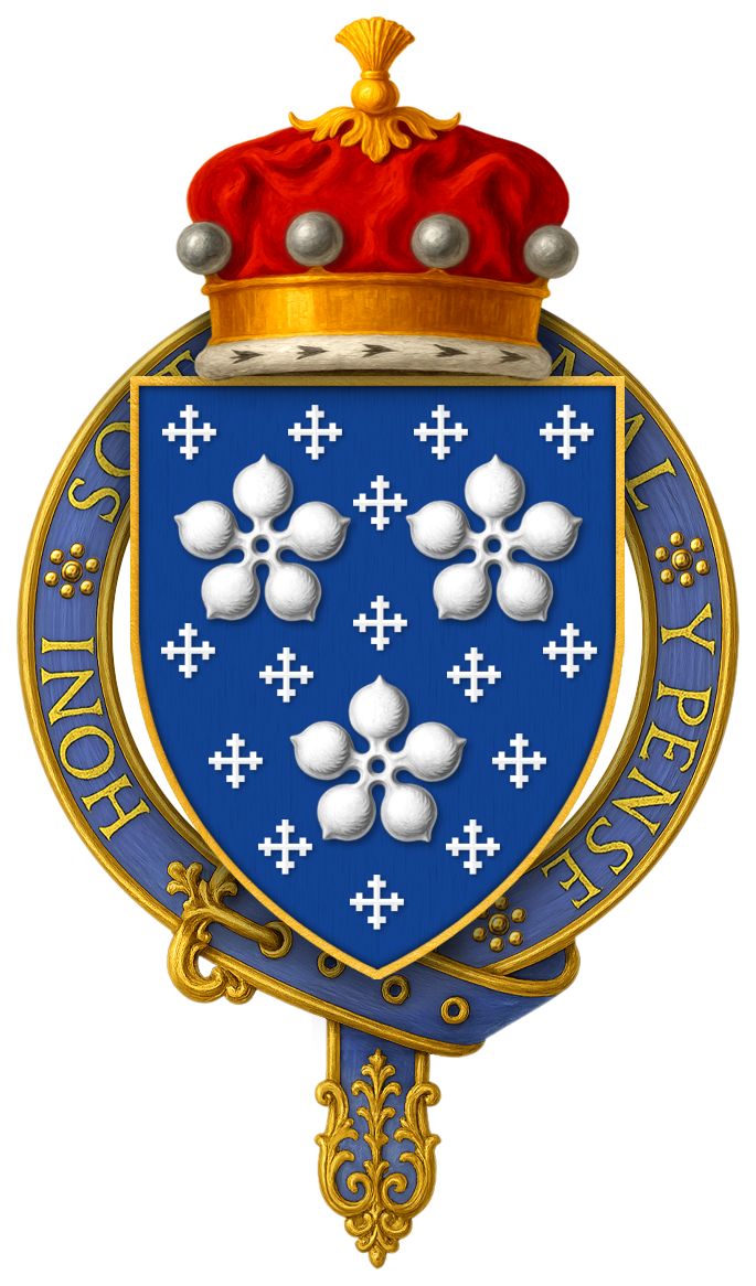 Coat of arms of Sir Thomas Darcy, 1st Baron Darcy of Darcy, KG BURKE, Sir Bernard, The General Armory of England, Scotland, Ireland, and Wales: Comprising a Registry of Armorial Bearings from the Earliest to the Present Time, London: Harrison & sons, 1884. “D'Arcy (Lord D'Arcy of Aston. Sir Thomas D'Arcy, brother of Lord Darcy, whose title fell into abeyance 1419, was summoned to Parliament 1509; attainted 1538; title restored to his son by Act of Parliament 1548; extinct 1635). Az. semée of cross crosslets and three cinquefoils ar.” Note: Arms illustrated are ancestral arms of D'Arcy, blazoned nine cross crosslets between three cinquefoils